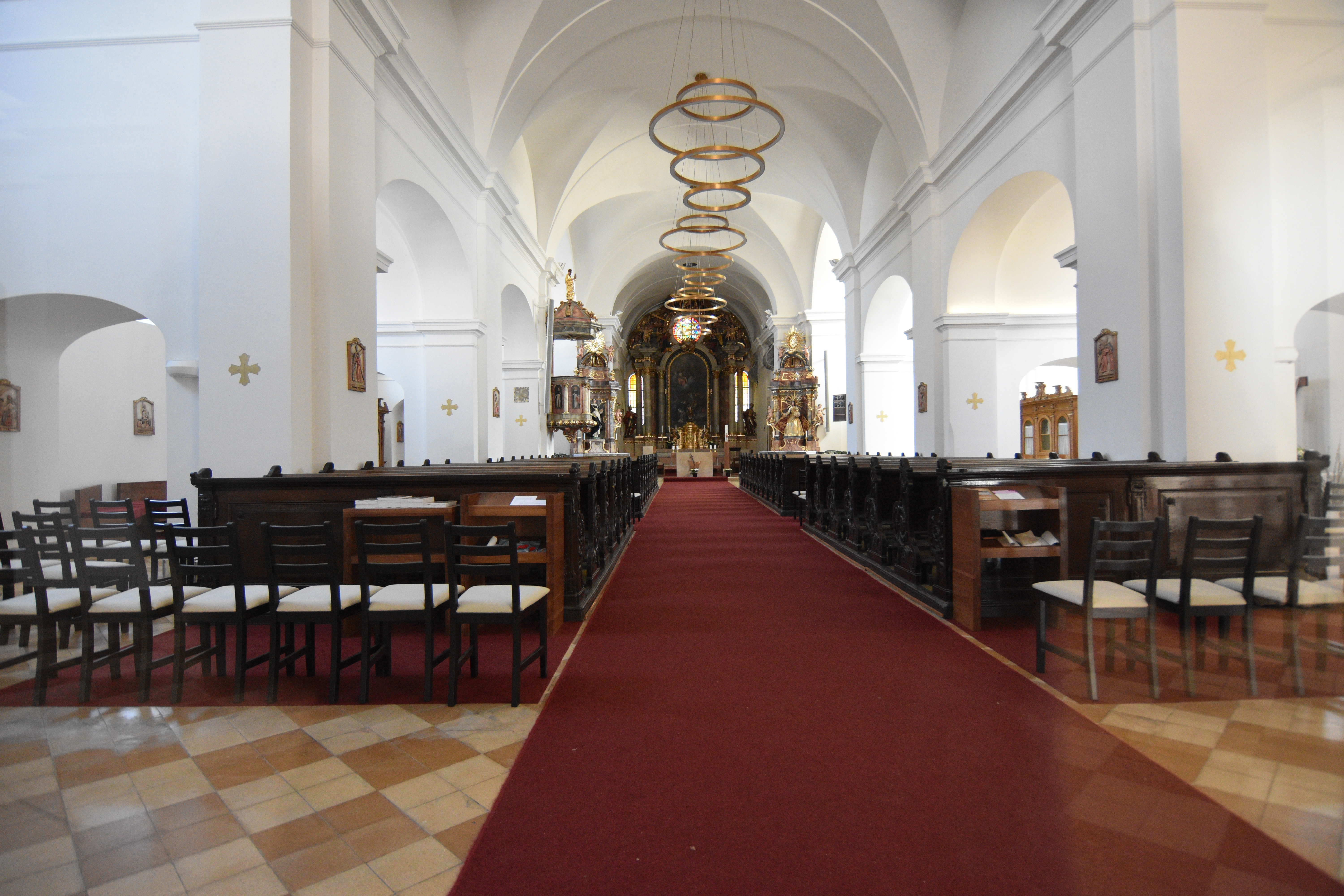 Dominican church, Szombathely - Interior